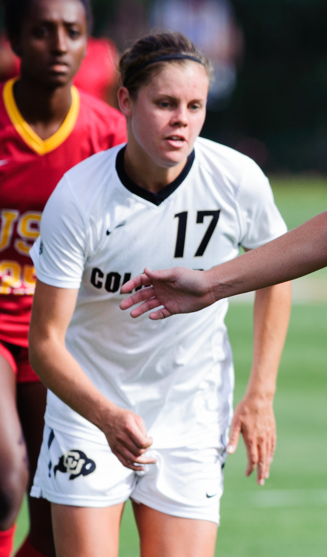 Kahlia Hogg vs Alex Quincey